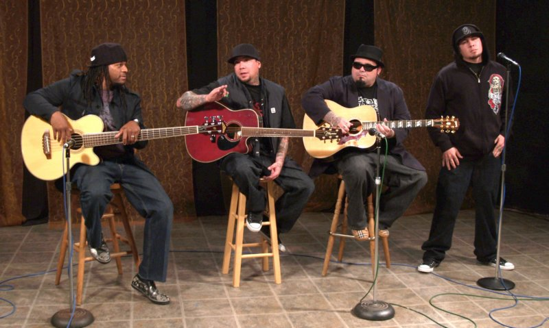 American nu metal musical group P.O.D. playing an acoustic set in San Diego, California.